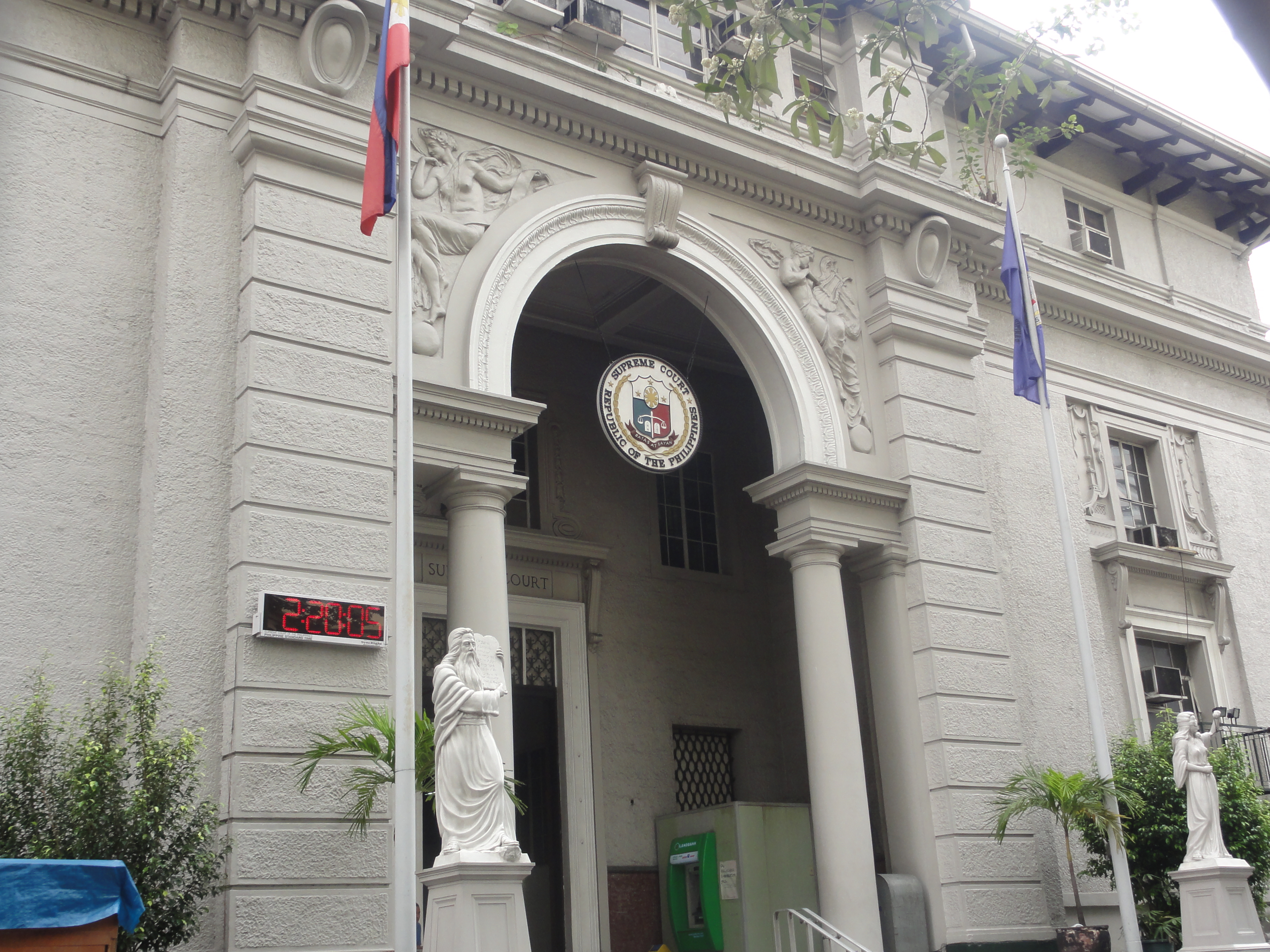 Old building of the Philippines' Supreme Court along Taft Avenue, Ermita, Manila as of October 2014. /moved to Commons to use on other language Wikipedia/